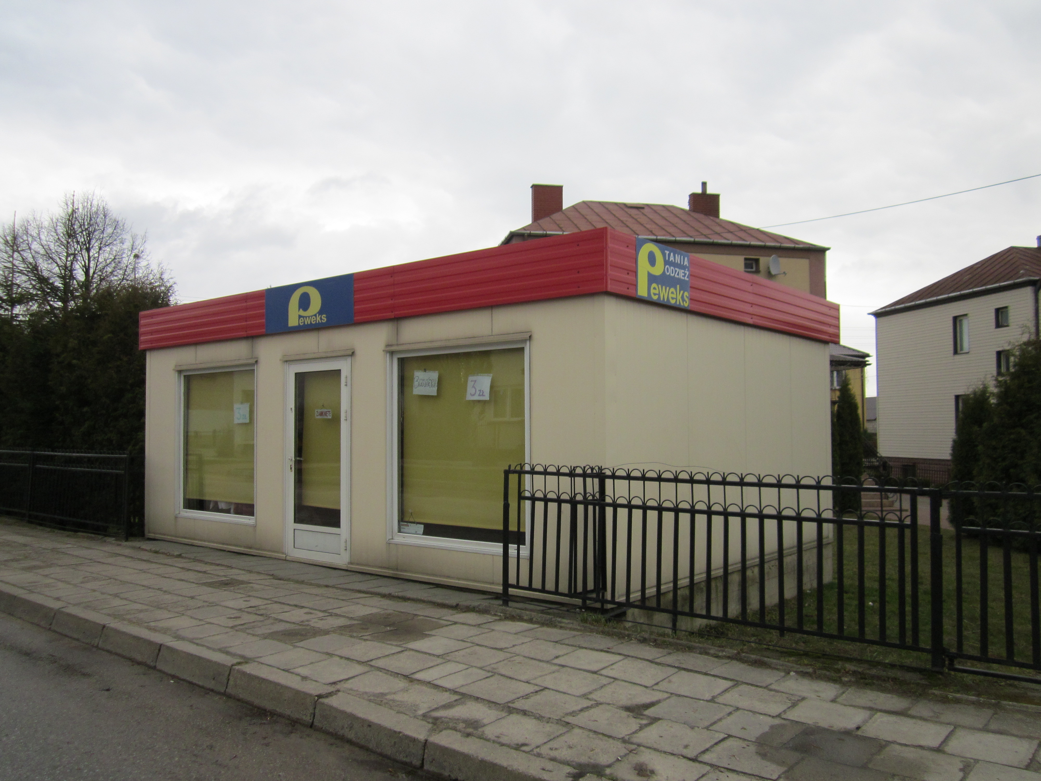 Second-hand shop "Pewex" in Mońki, at Kolejowa Street